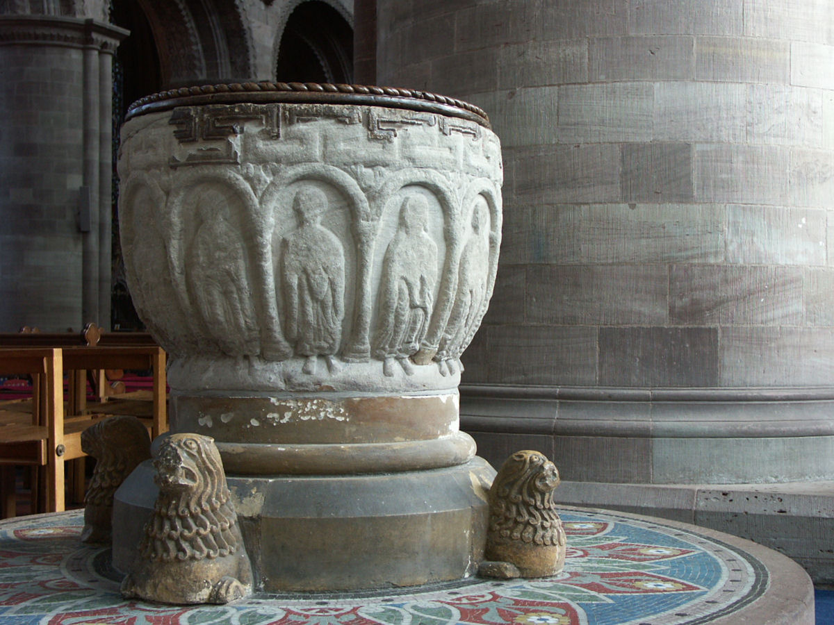 Norman baptismal font in Hereford Cathedral, England